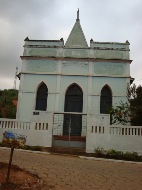 Presbiterian church of Vermelho Velho